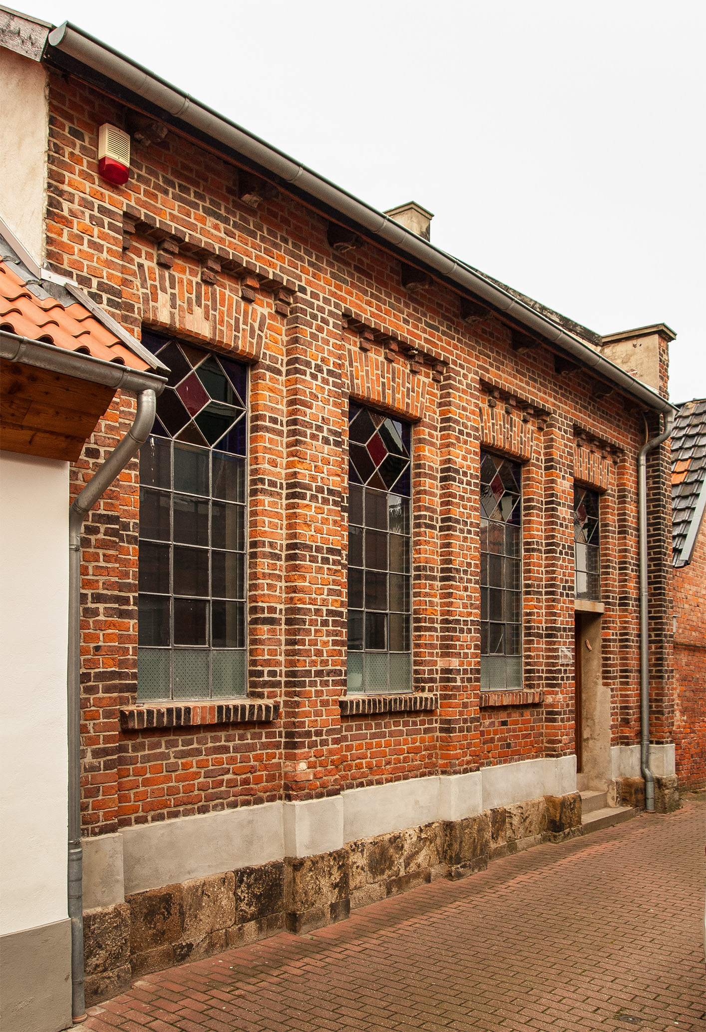 Alte Synagoge in Petershagen, Kreis Minden-Lübbecke (Nordrhein-Westfalen). This is a photograph of an architectural monument.